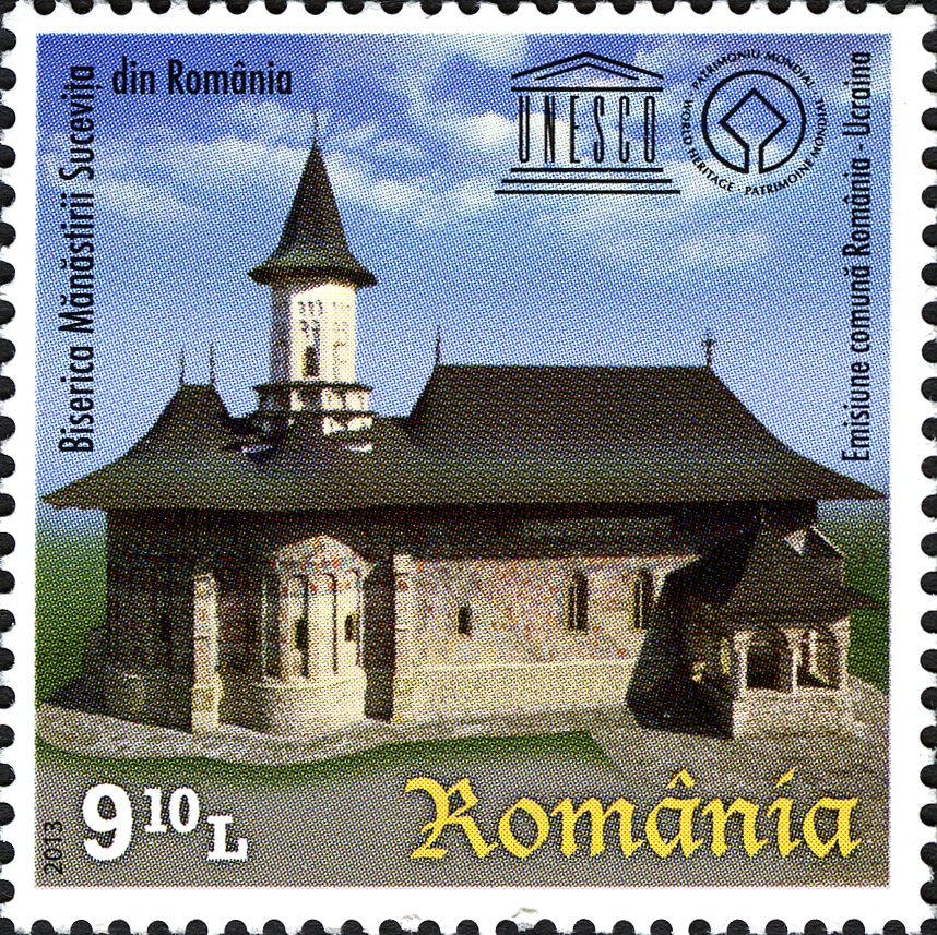 Stamps of Romania, 2013